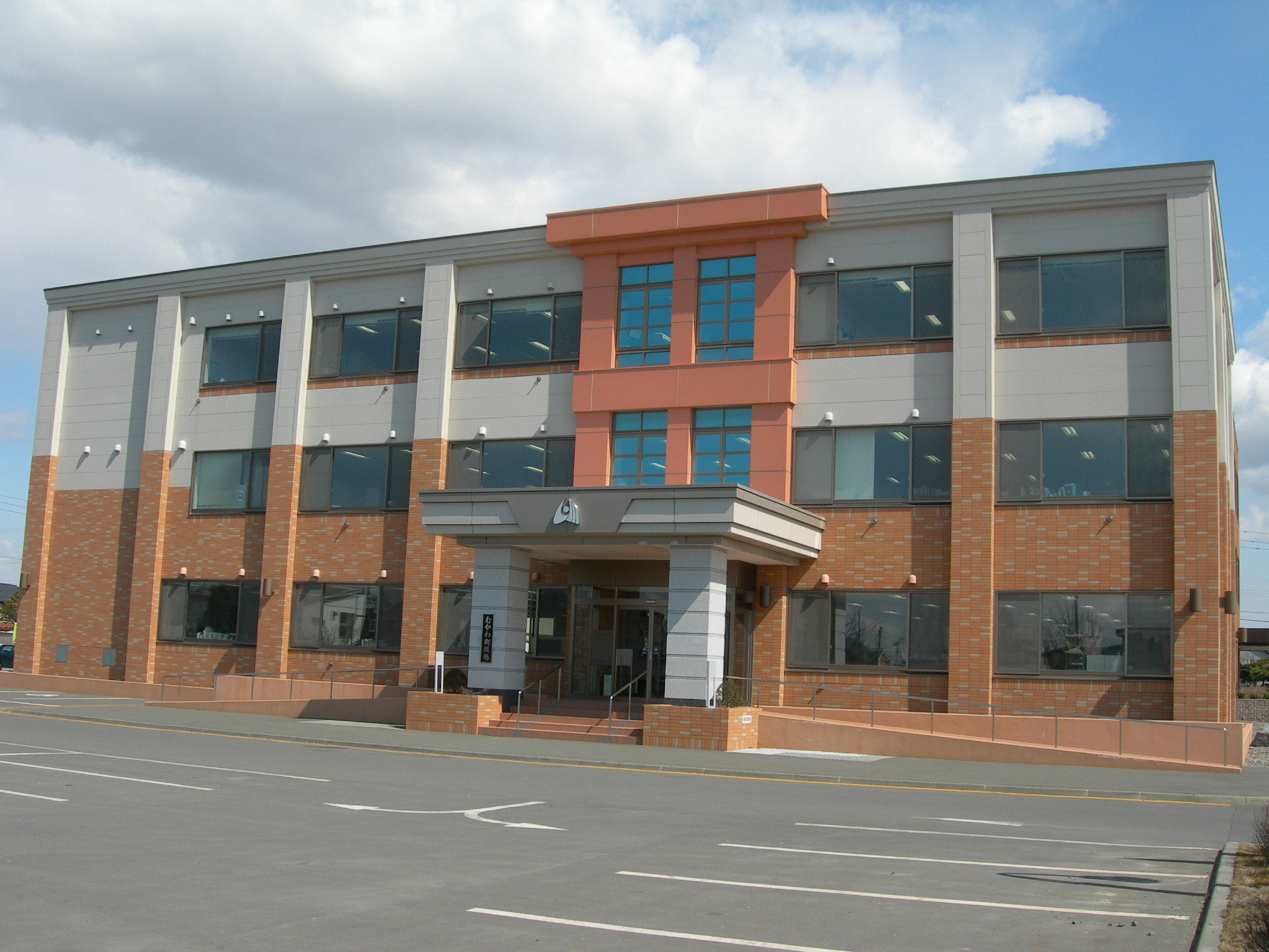 Mukawa Town Office in Hokkaido Prefecture, Japan